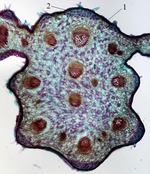 Rumex leaf